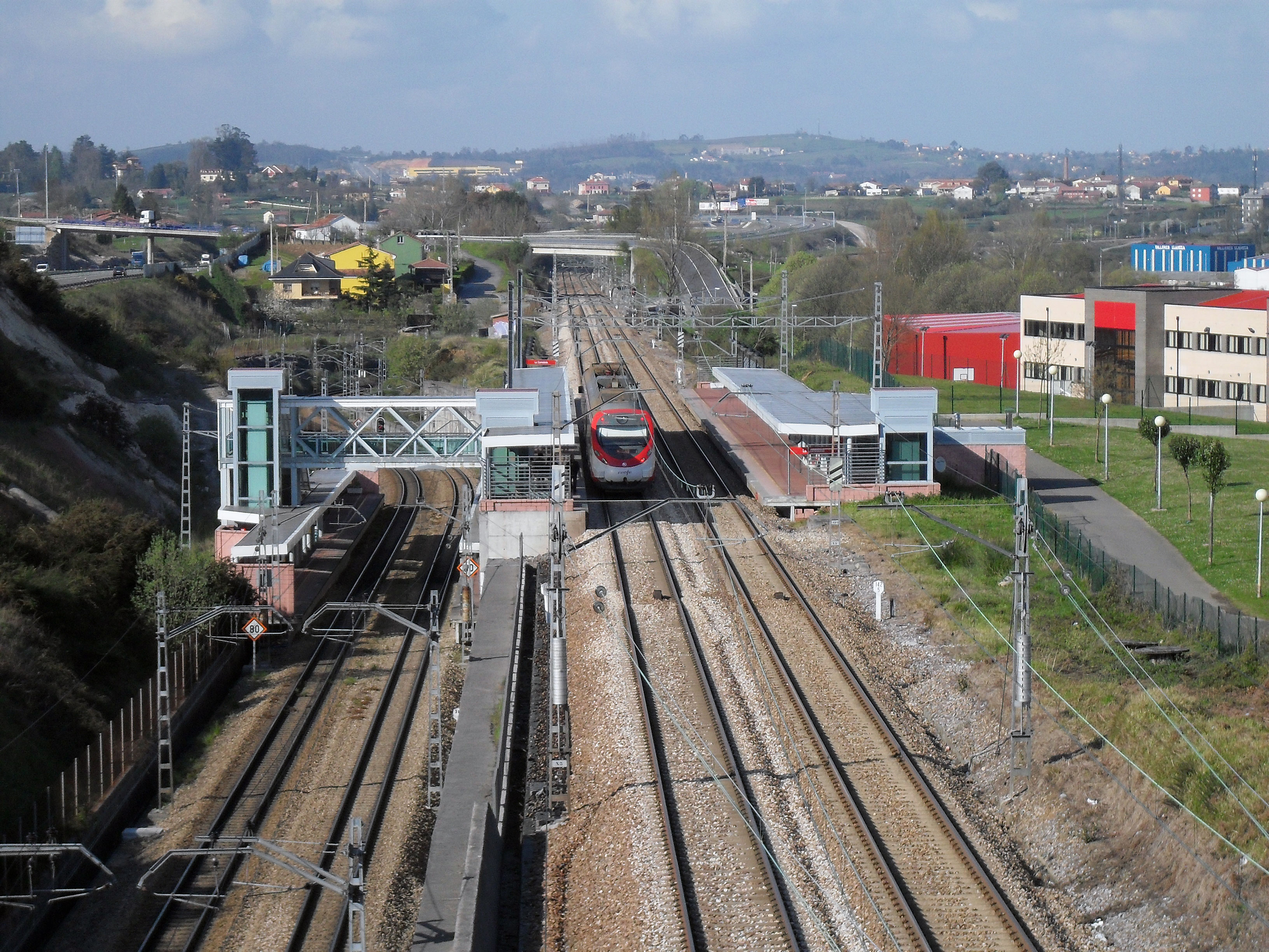 View of La Corredoria Railway Station (Oviedo, Asturias, Spain)